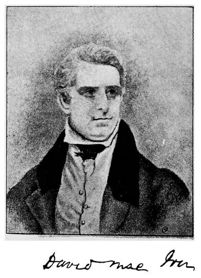 David MacIver (24 August 1840 - 1 September 1907)